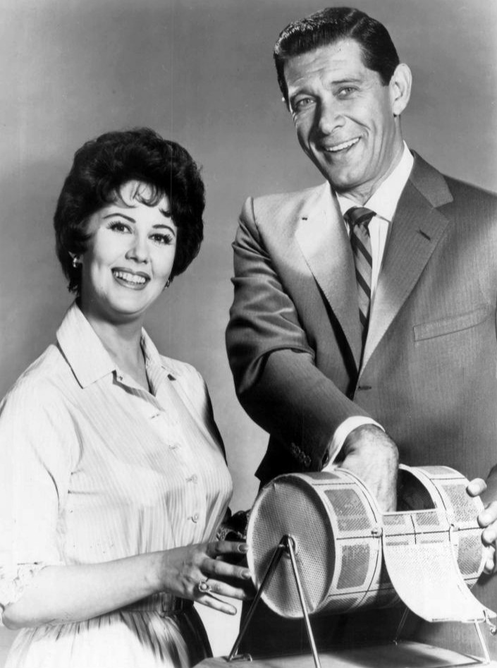 Photo of actress Micki Marlo and comedian Jan Murray from the television program The Jan Murray Show. Marlo was the hostess of the daytime program. They are seen here preparing to draw names for the show's "Charge Account" game segment.